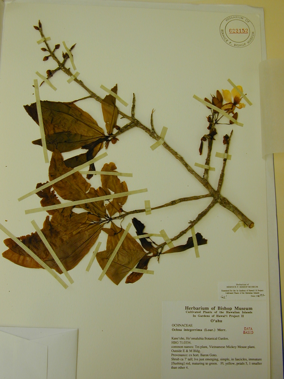 Ochna integerrima (BISH specimen). Location: Oahu, Hoomaluhia Botanical Garden